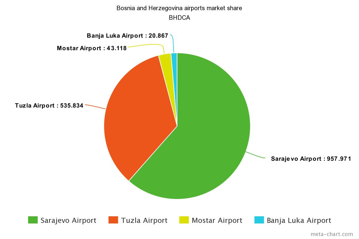 Bosnian airports market share